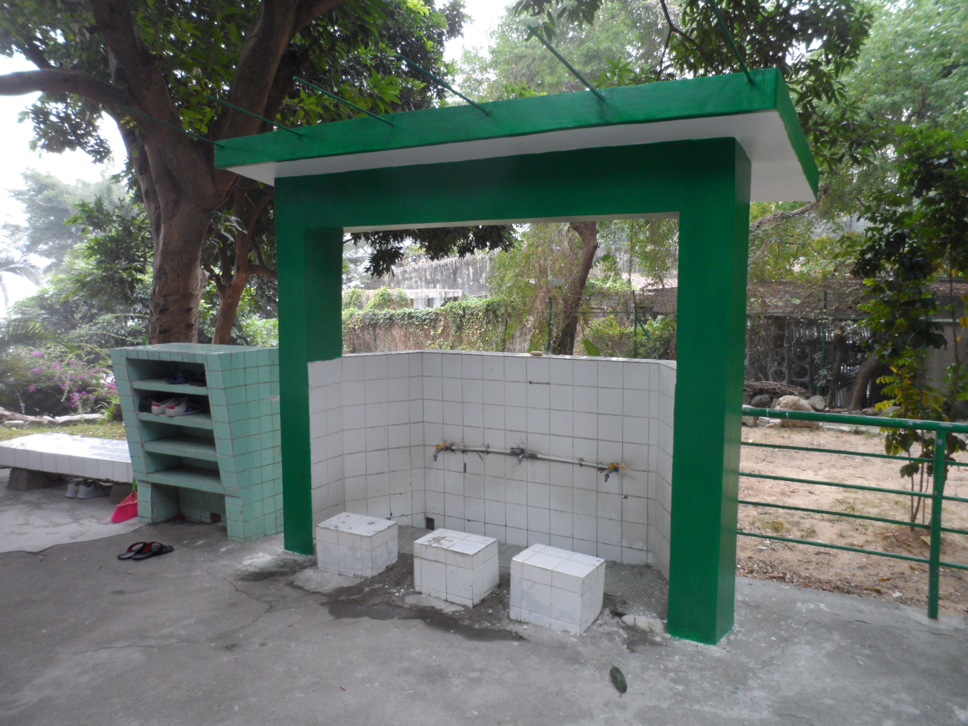 Ablution Tap, Macau Mosque, Macau, China